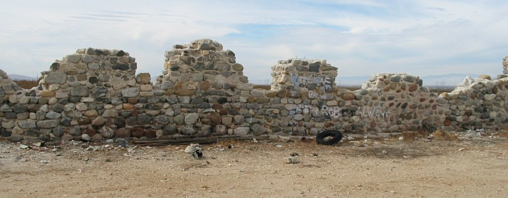 Photograph of the ruins of Llano Del Rio, California